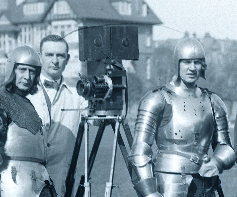 A crop from the previous image showing the wonderful camera in more detail. Also I suspect this is the cameraman and the two lead actors. Date is roughly estimated as 1910s but all further suggestions welcome. From the camera and the possible date there's a feeling this could be a professional rather than amateur production - any movie buffs out there who could confirm that, and suggest a title?